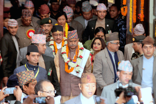 President Ram Baran Yadav visited the temple in the evening as the head of the state